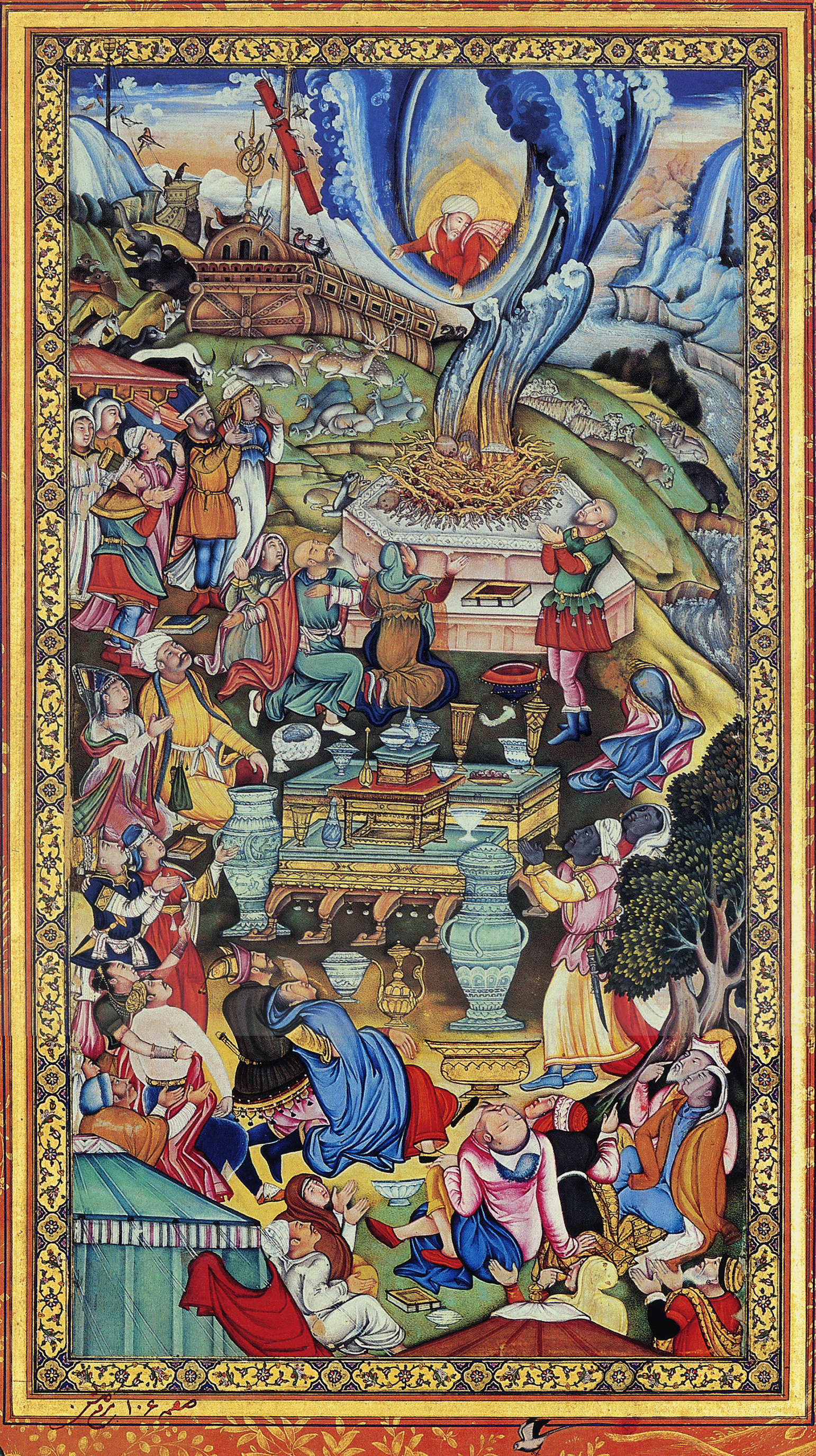 cropped and enhanced version , of this file. "The Prophet Noah/Nūḥ"; Miniature book "Moraqqa-e Golshan" , 1605 - 1628 AD. Unknown artist. Golestan Palace .